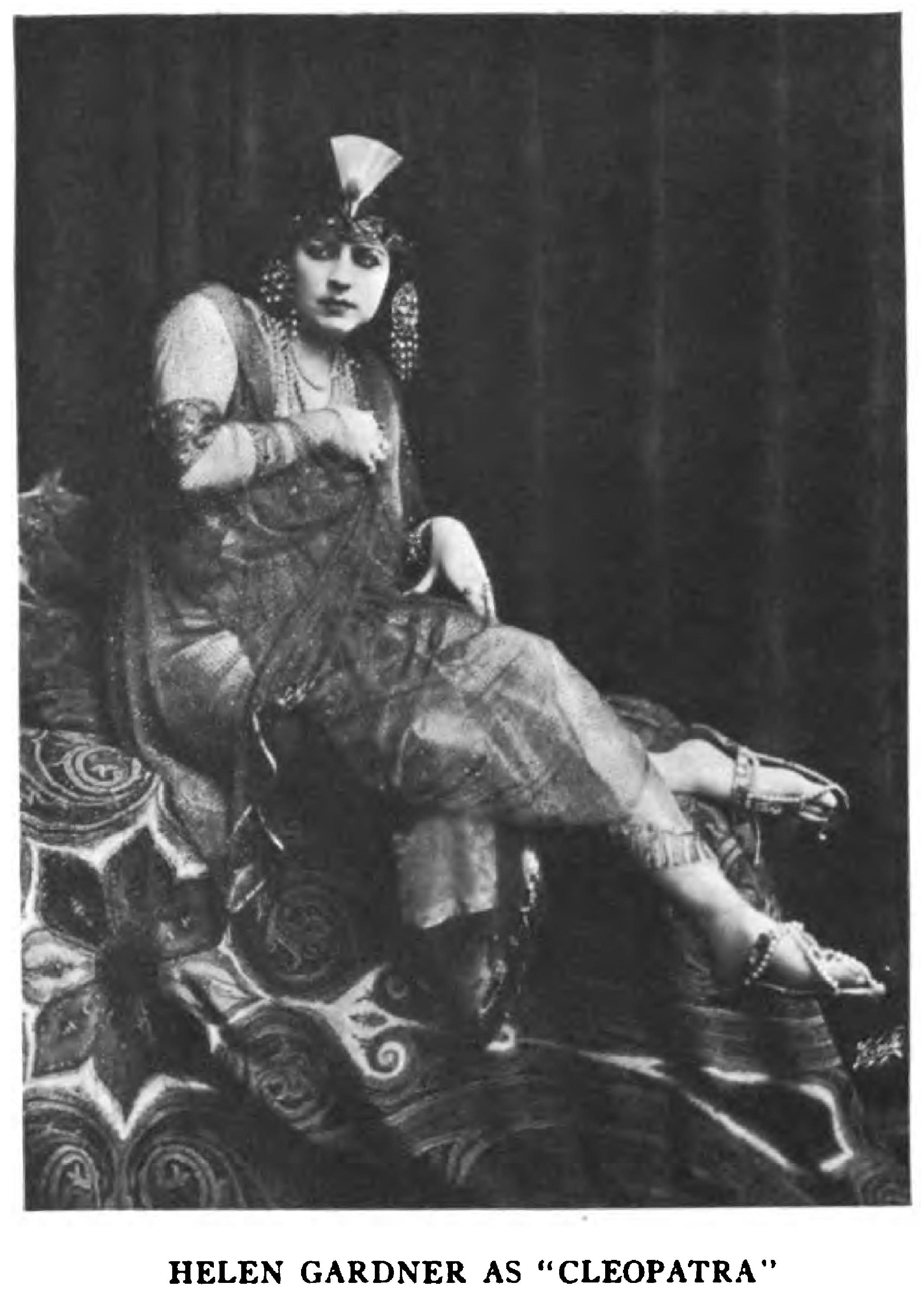 Cleopatra is a silent film created in 1912 by Helen Gardner and the Helen Gardner Picture Players.